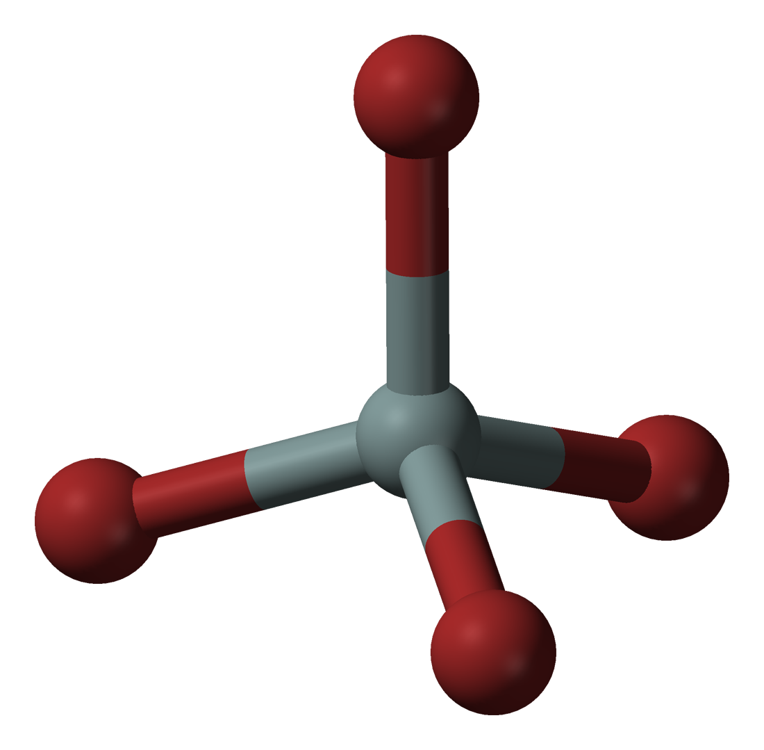 Ball-and-stick model of the silicon tetrabromide molecule